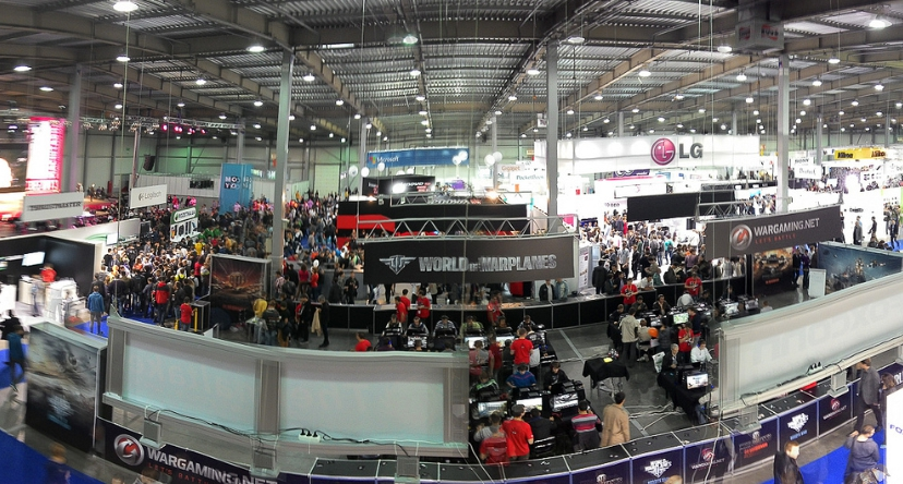 CEE Expo 2015